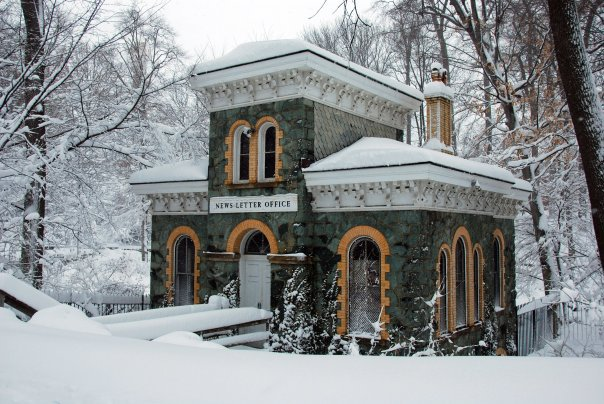 News-Letter office in winter